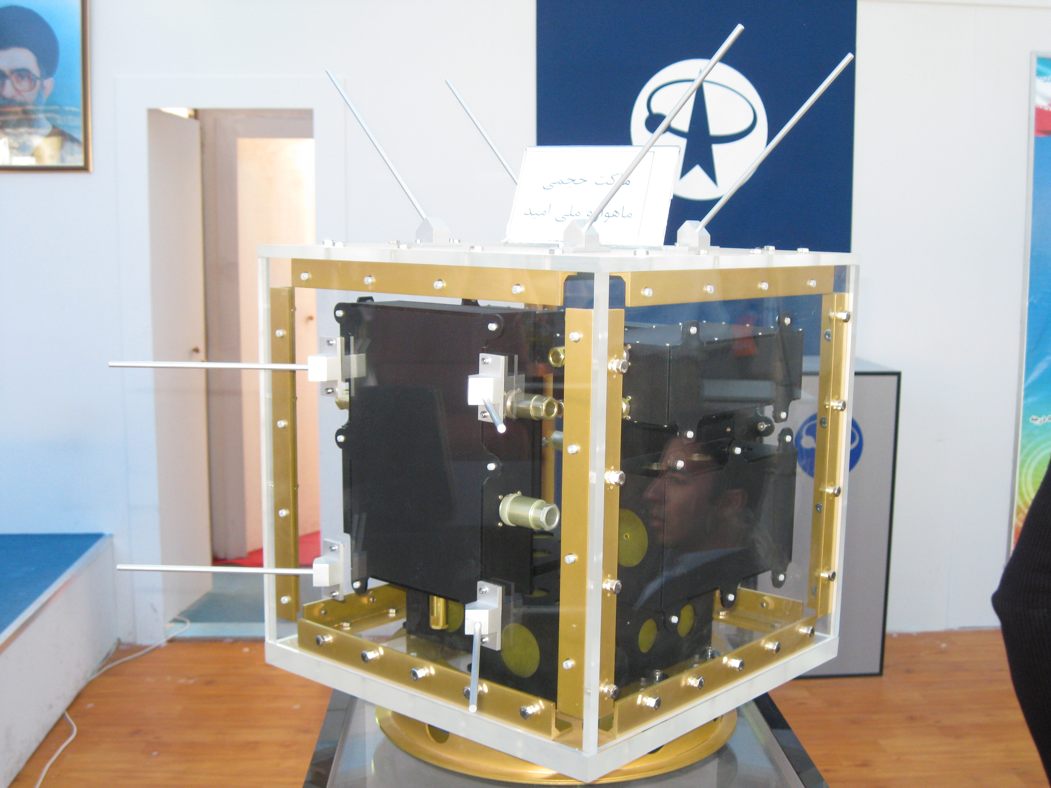 Omid [was Iran's first domestically made satellite Described as a data-processing satellite for research and telecommunications, Iran's state television reported that it was successfully launched on February 2, 2009